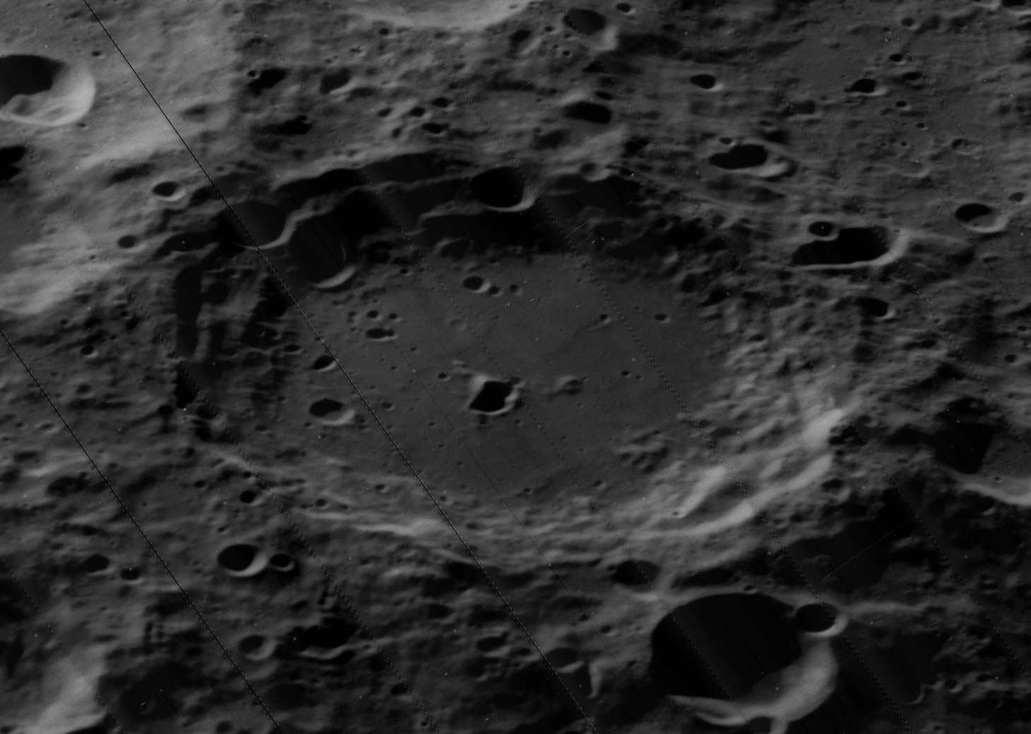 Oblique view of Carnot, on the far side of the moon, facing west.